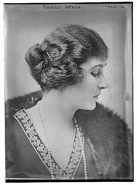 Princess Patricia of Connaught (1886-1974).